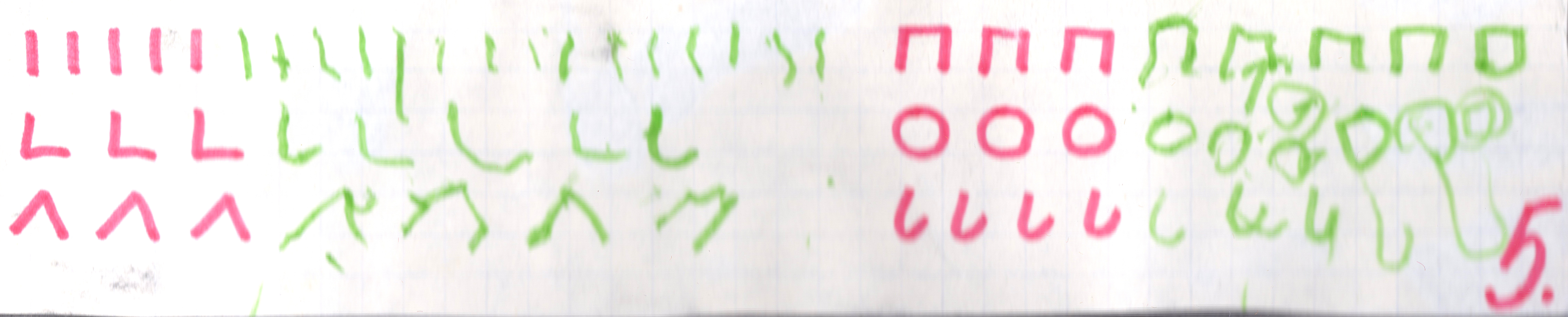 Education test written by four year old child in about 1972, the former Soviet Union.